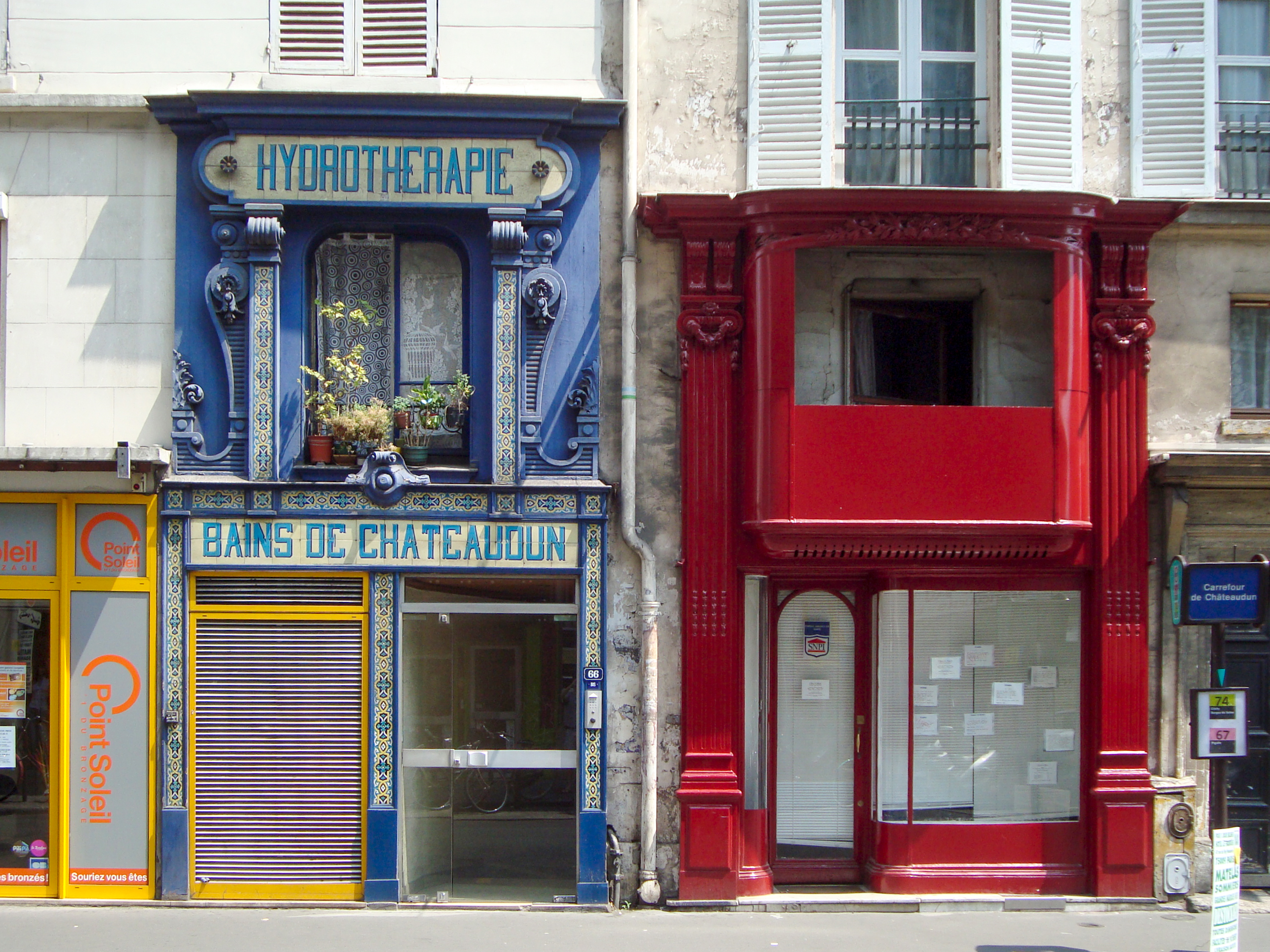 Front of a old hydrotherapy store at rue du Faubourg-Montmartre in Paris